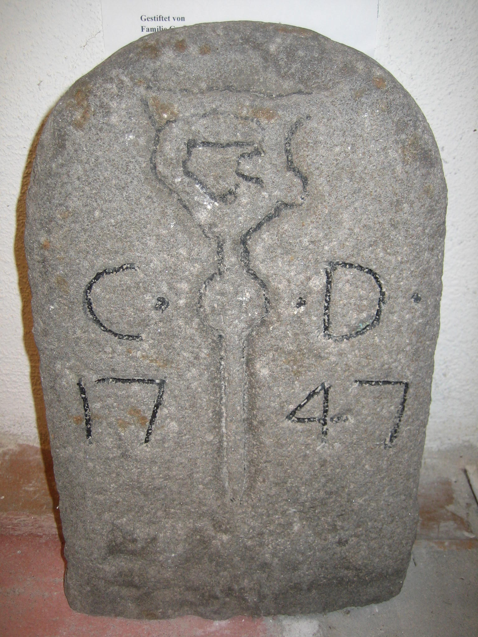 Boundary marker of Dalheim Abbey, Mainz. Detected as spolia during reconstruction works in Mombach 1968. The frontside showing initials C and D, inbetween the crosier of the abbess of Dalheim and the date 1747.